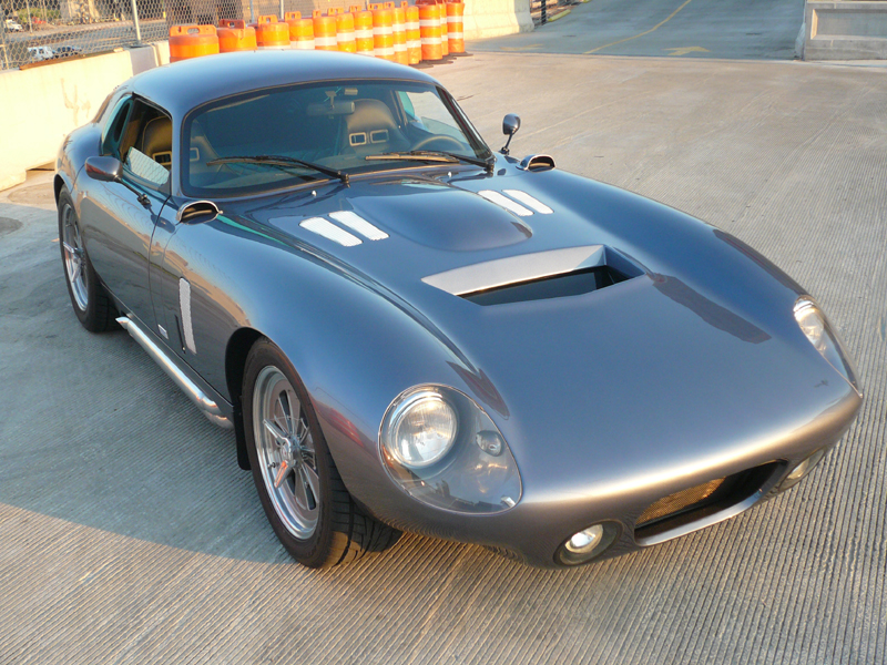 Shelby Daytona Coupe photographed in Chicago in September of 2007.